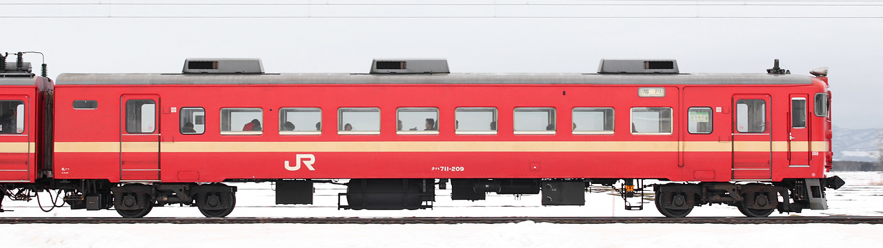 JR Hokkaido's type Kuha 711-200 ( Minenobu Stn. - Koushunai Stn. )